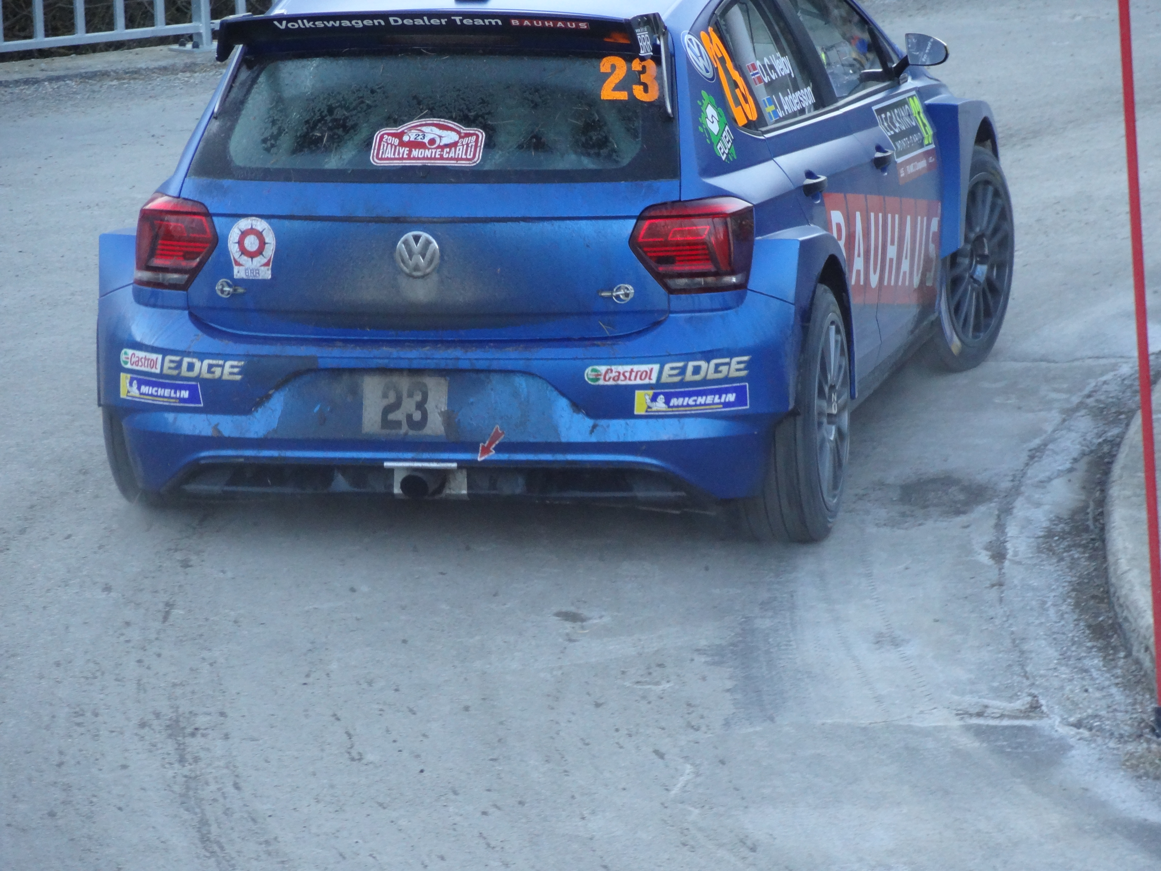 Volkswagen Polo GTI R5 d'Ole Christian Veiby au Rallye Monte-Carlo 2019.